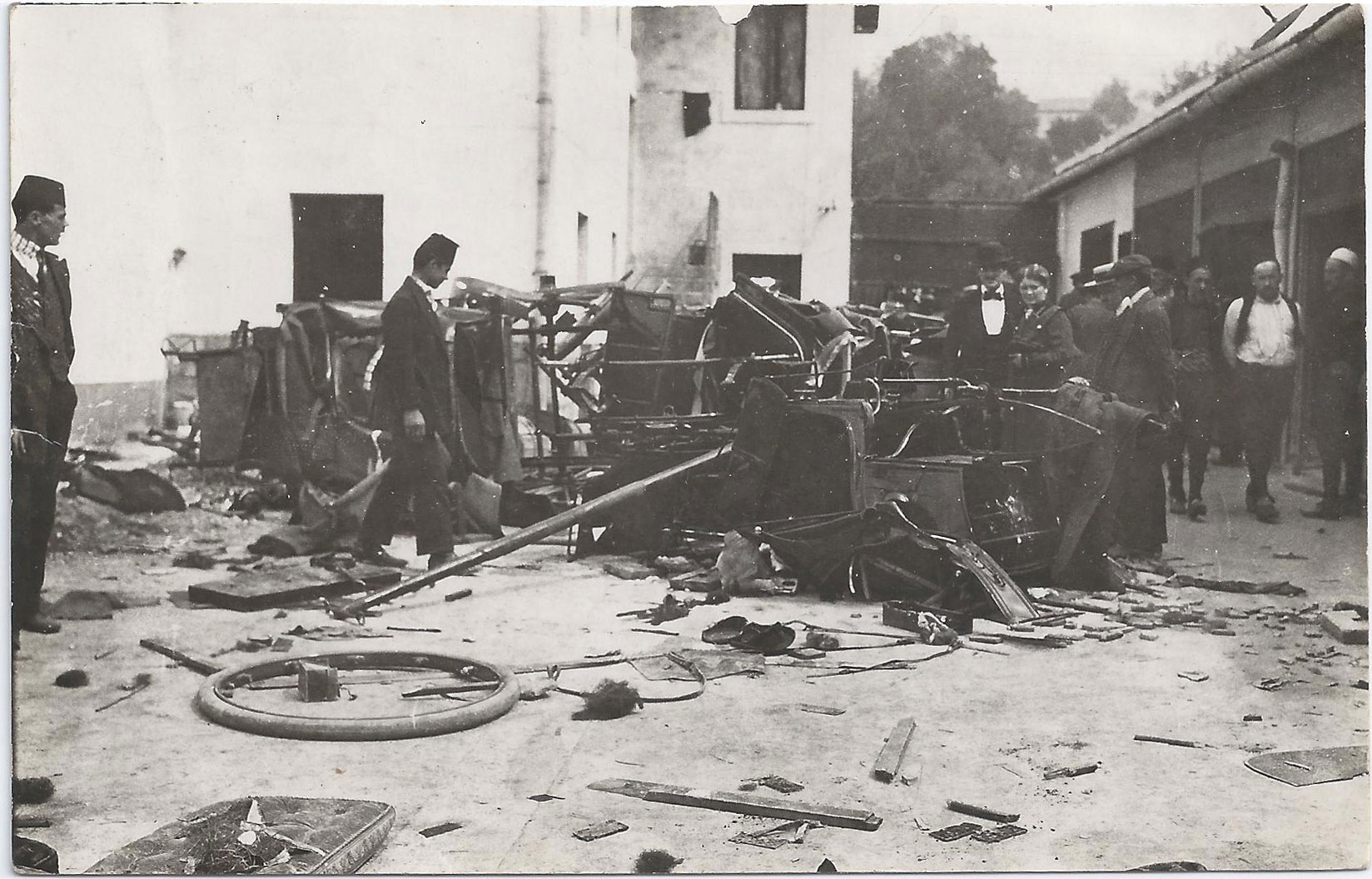 Destroyed garage of Hotel “Evropa” owned by the Jeftanovic family